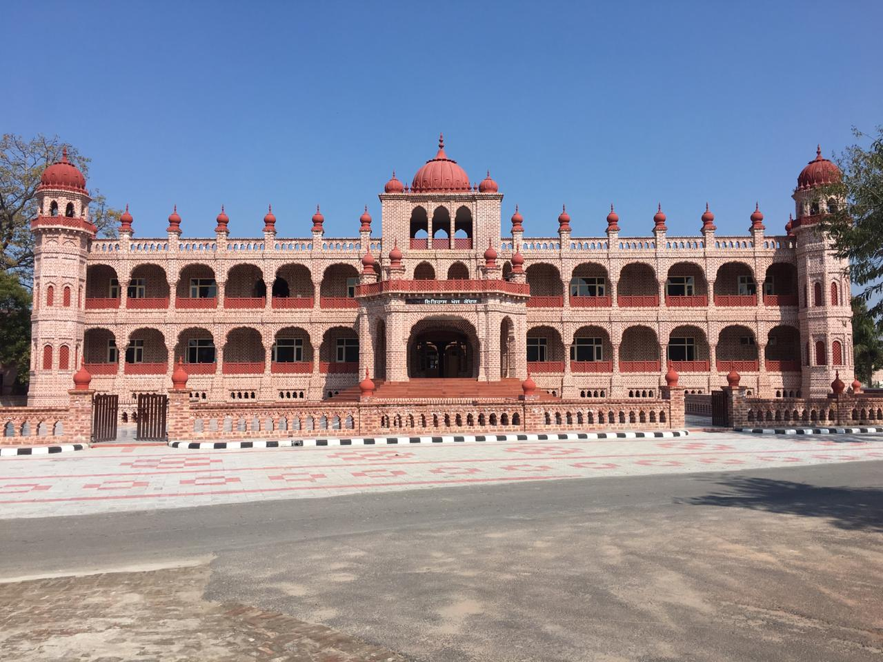 It is New building of Sikh History Research department at Khalsa College Amritsar